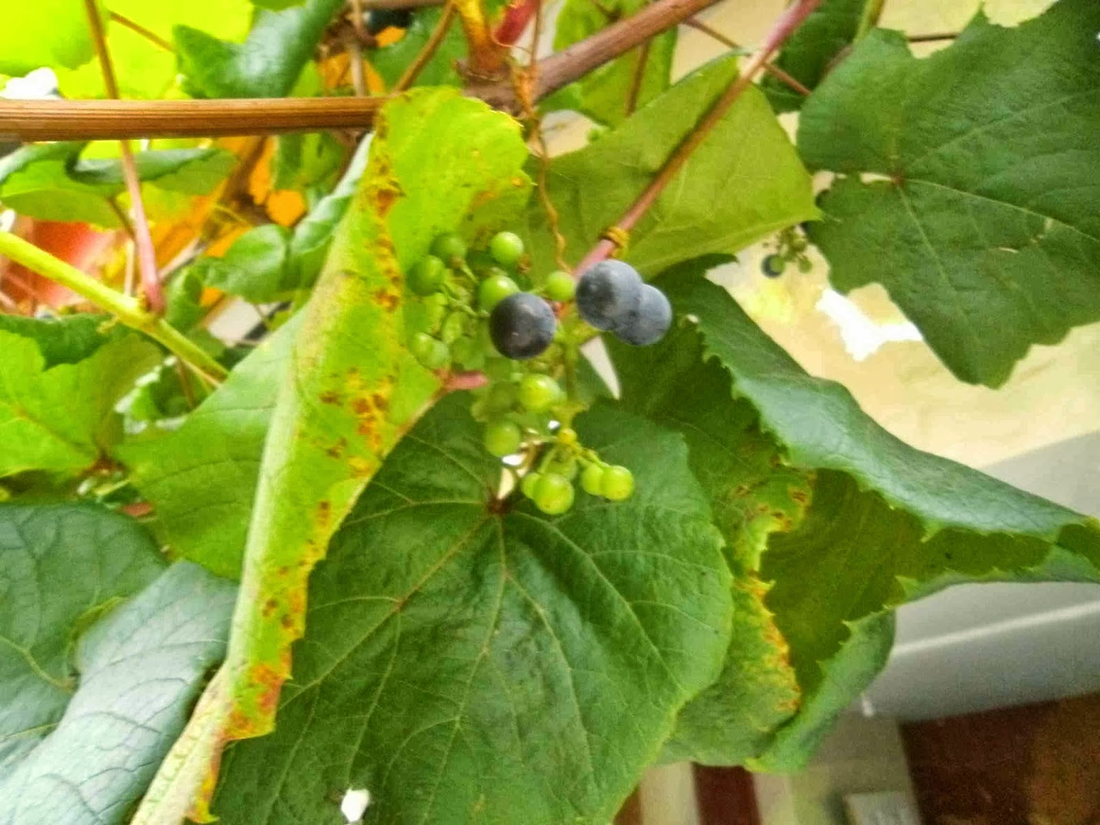 Vitis coignetiae (Japanese grape) fruit cluster.